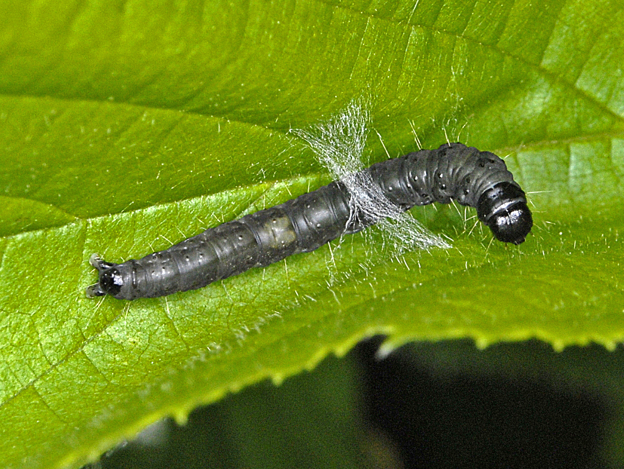 Caterpillar of "Celypha lacunana". Val Noci, Genova, Italy